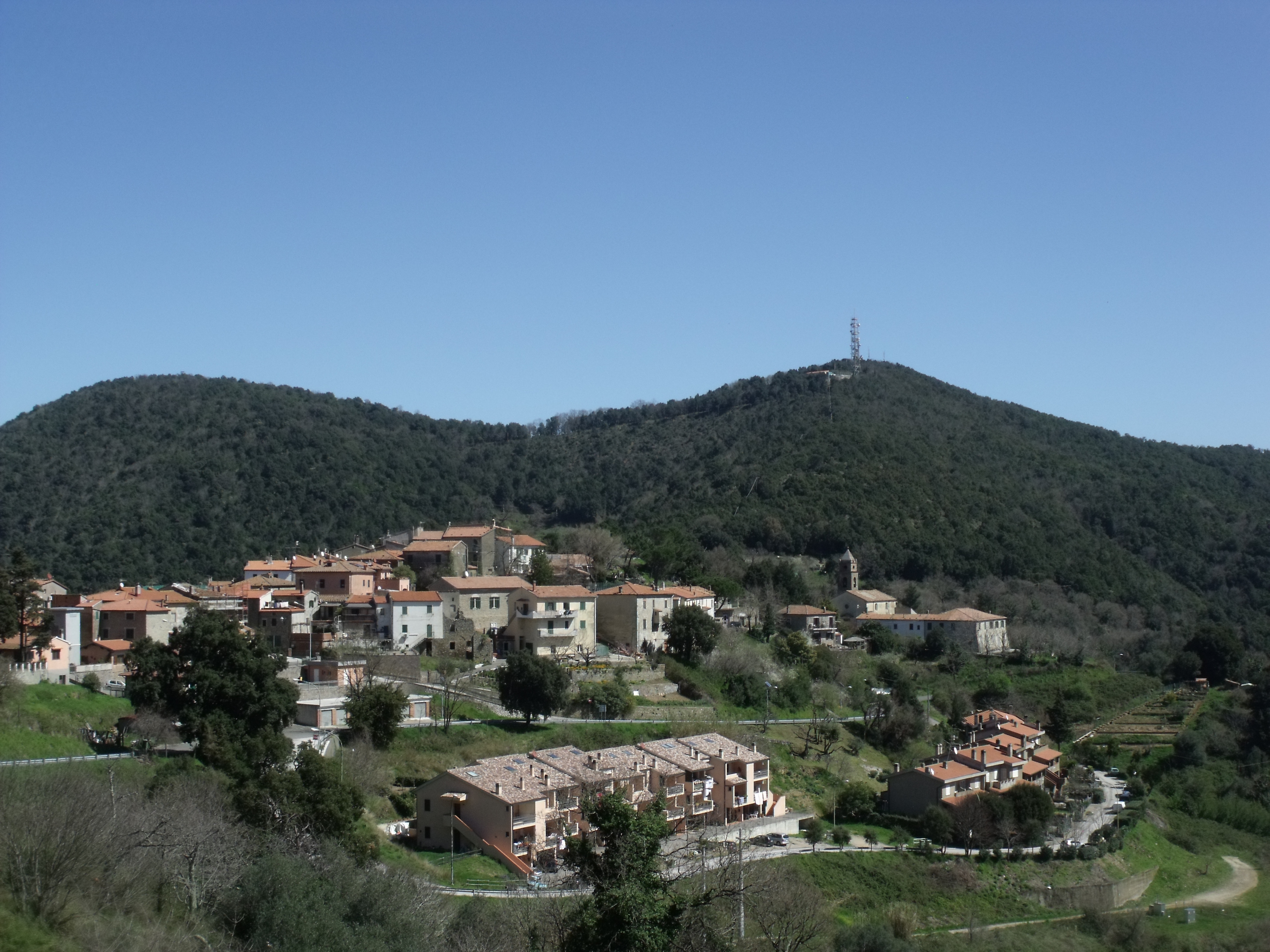 Panorama of Tirli, hamlet of Castiglione della Pescaia, Maremma, Province of Grosseto, Tuscany, Italy